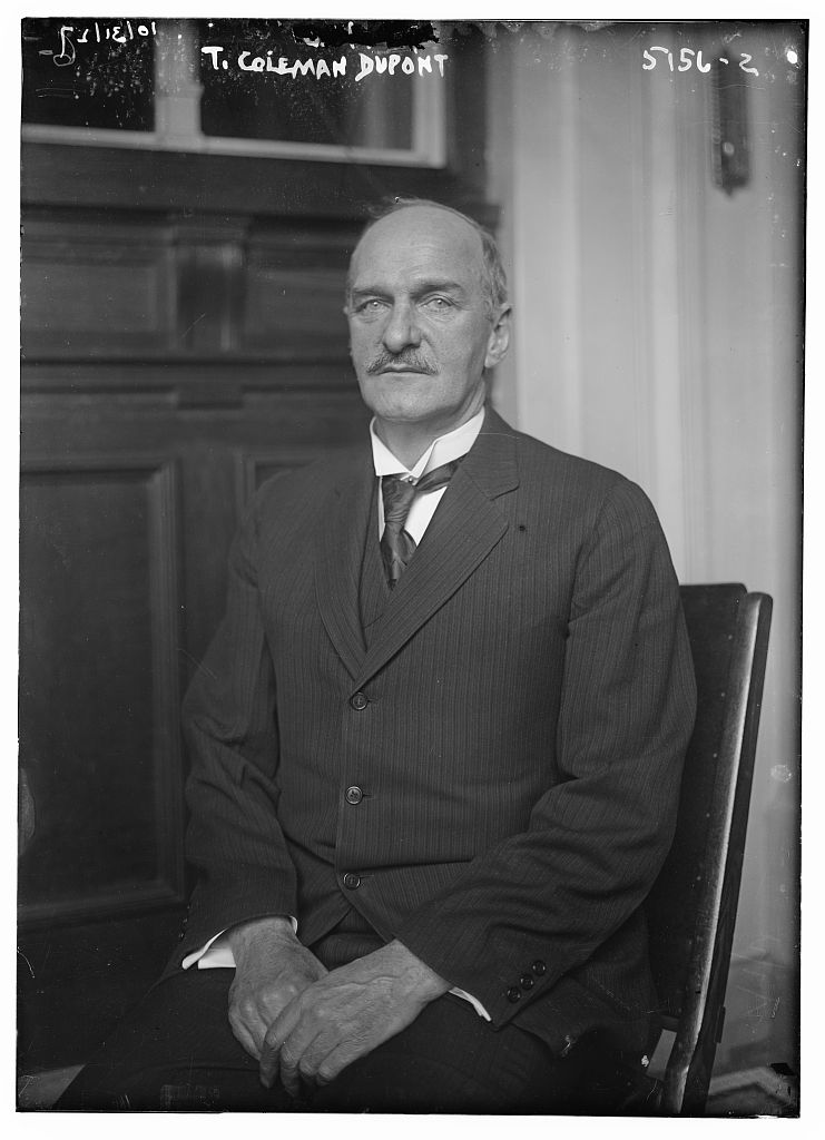 T. Coleman Dupont in 1920